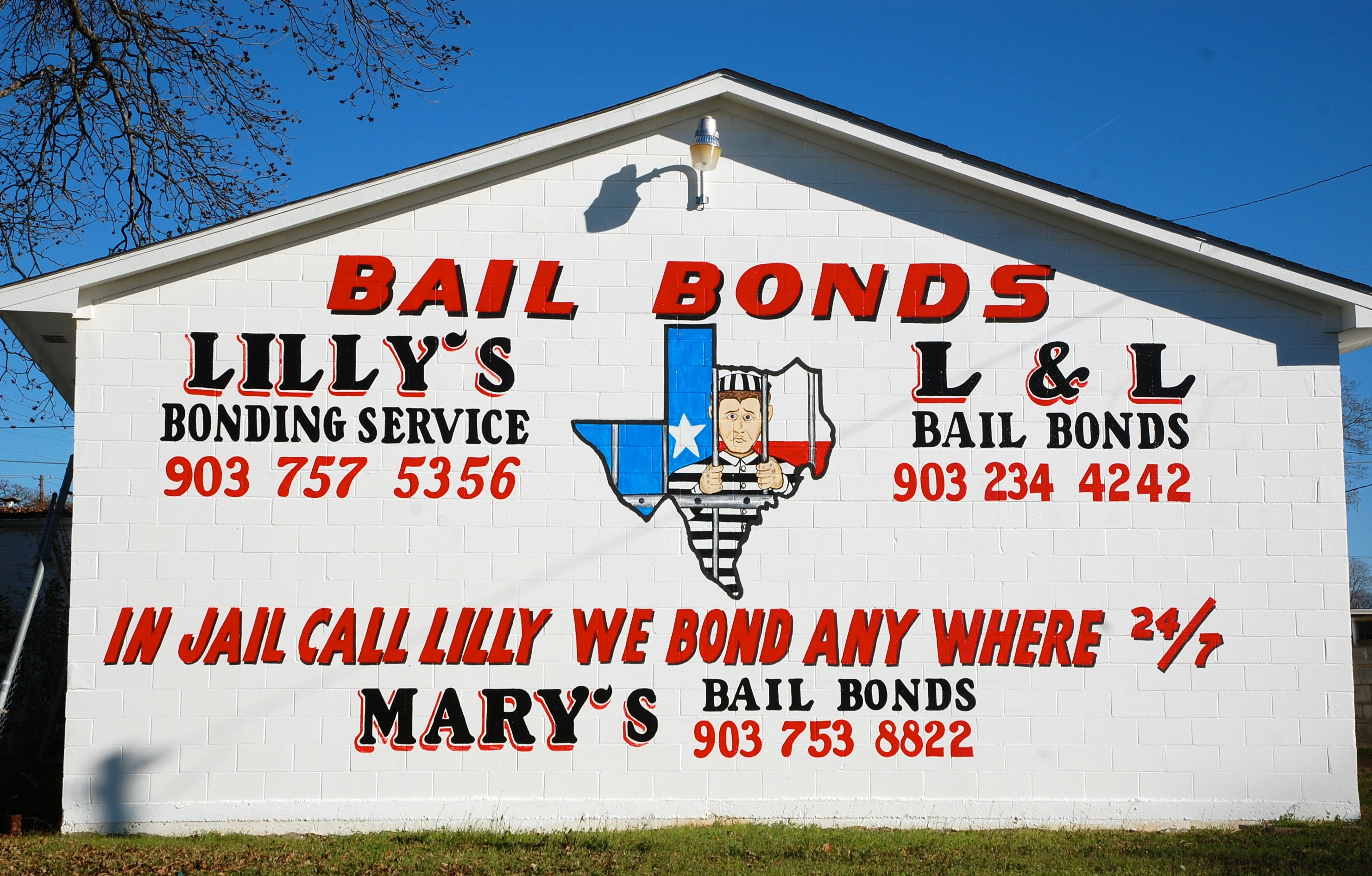 Longview, Texas. Lilly's Bonding Service L&L Bail Bonds Mary's Bail Bonds